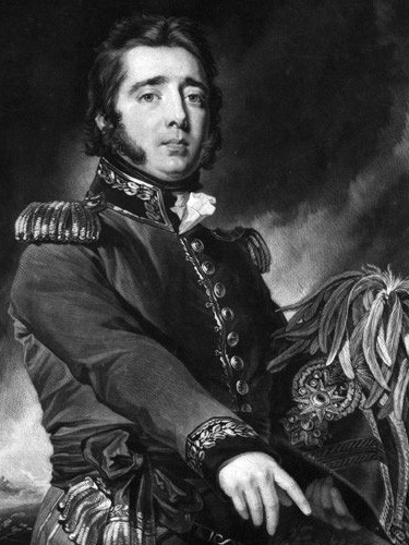 General Gregor MacGregor (1786–1845), who, after fighting in the South American wars of independence, returned to Britain and falsely claimed to have been made "cacique" of a fictional Central American country, "Poyais", all in an effort to defraud land investors. Nearly 200 died in 1822 and 1823 in connection with MacGregor's deception, having immigrated to his invented country.